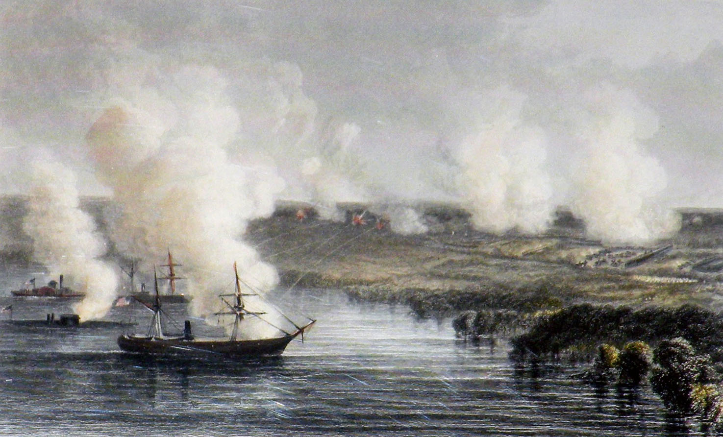 Union gunboats lobbing missiles onto the battlefield at Malvern Hill, Virginia